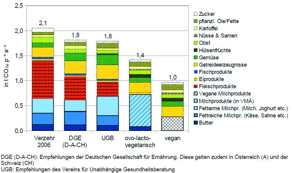 Greenhouse gas emissions of different diets in Germany